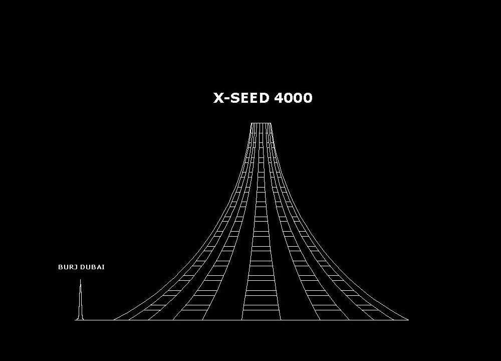 Comparison of the Burj Dubai, the tallest building at time of upload, with the X-Seed 4000, the tallest and largest building ever fully designed.